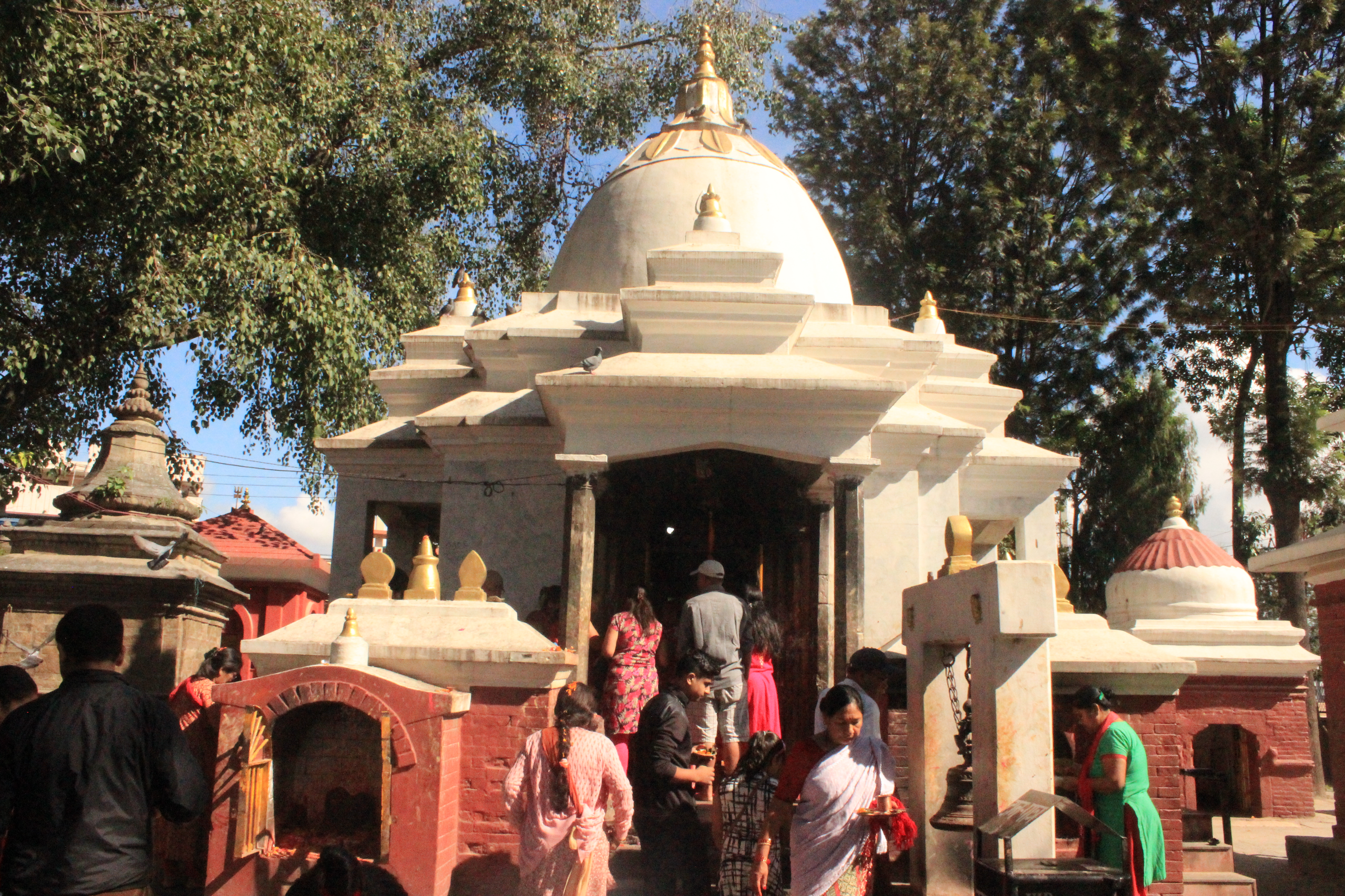 Main Temple complex of Koteshwor Mahadev.